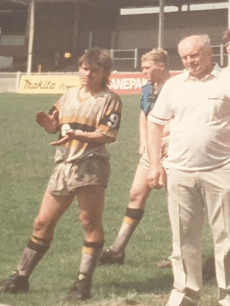 Kevin Rudd (rugby league player) with Castleford coach Dennis Hartley in the 1980s'